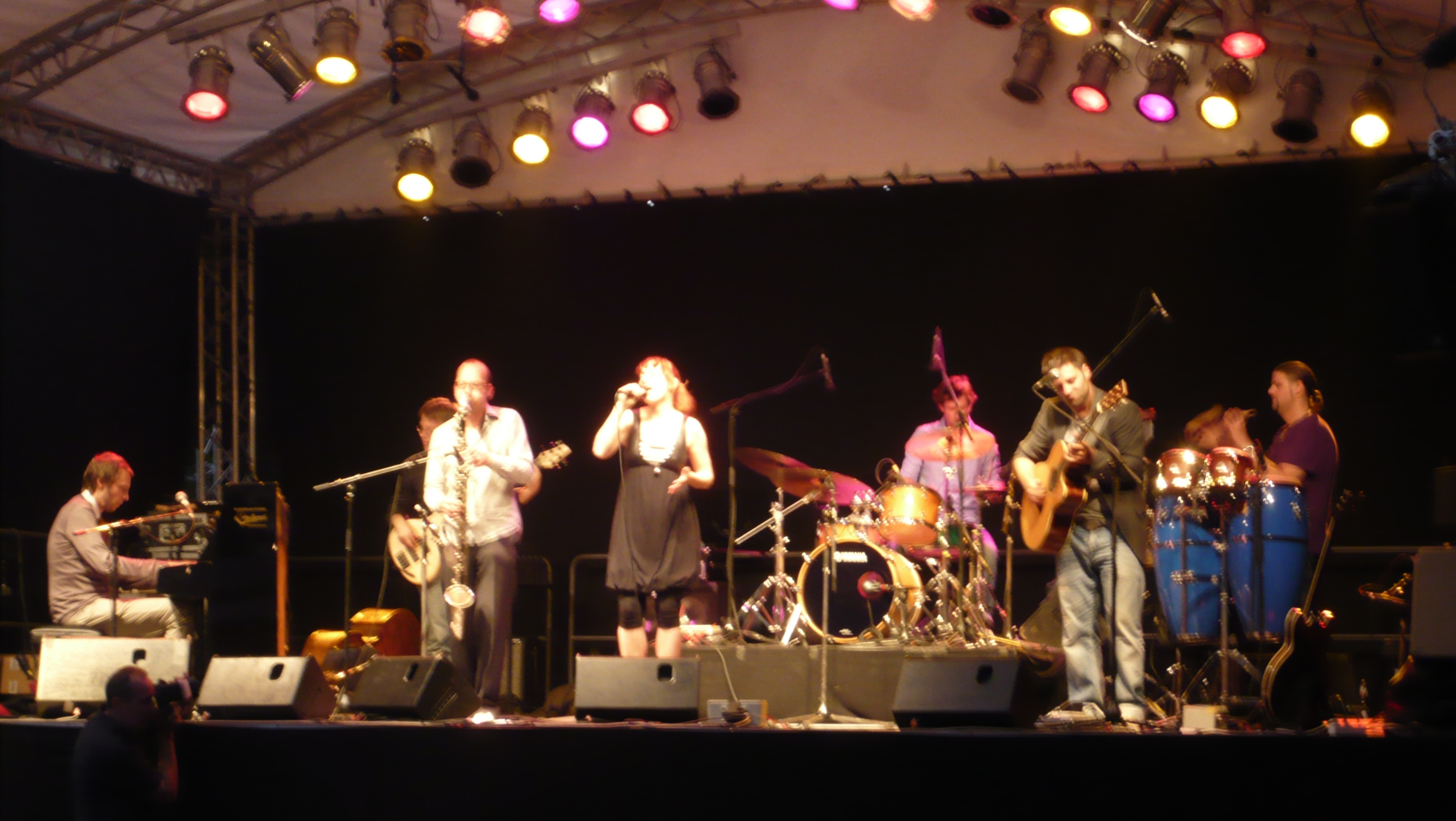 Re:Jazz (2009)